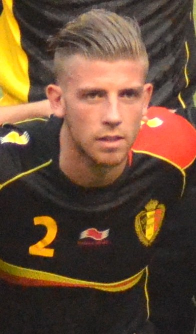 Taken at FirstEnergy Stadium Home of the Cleveland Browns